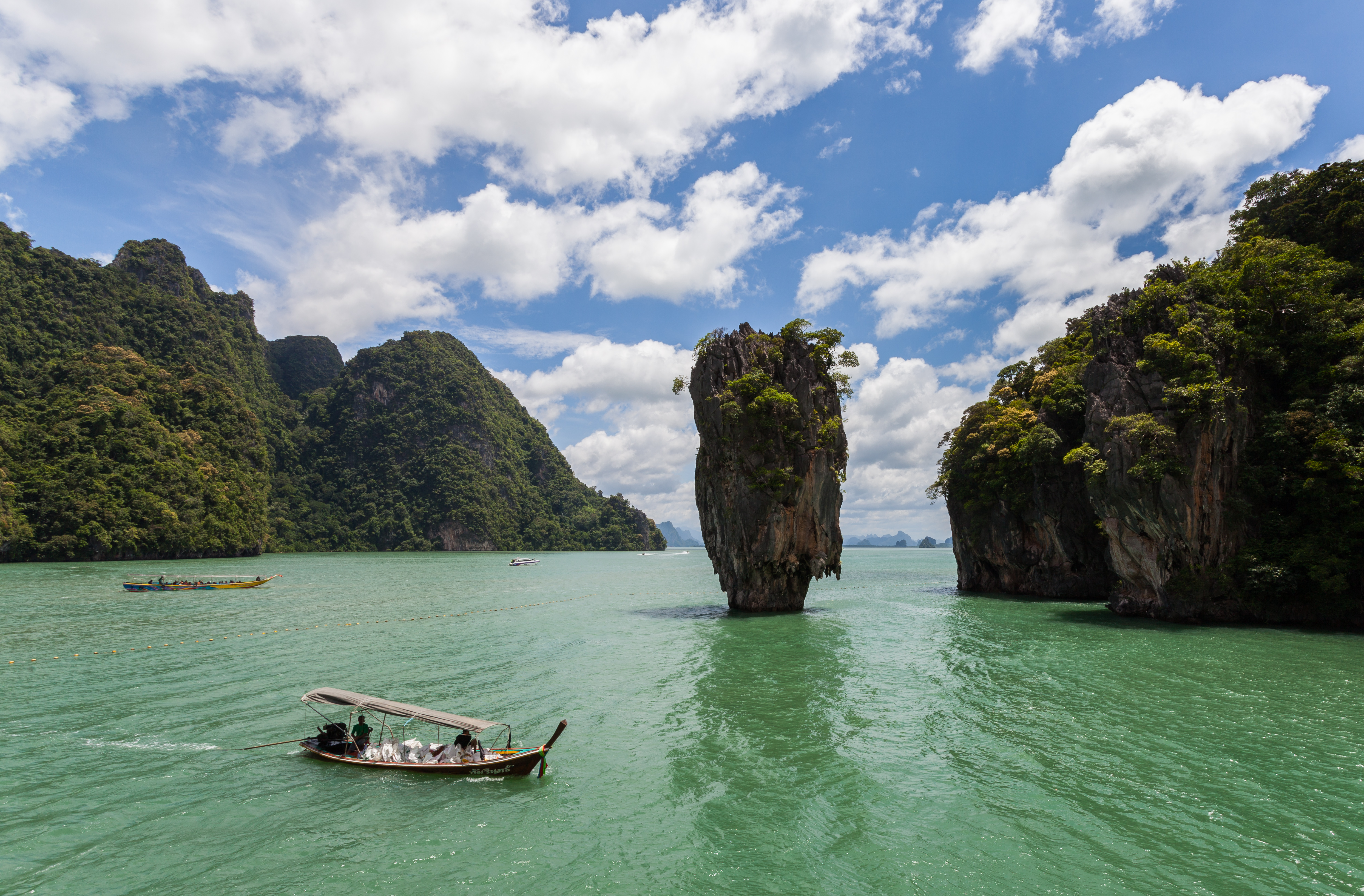 Ko Tapu (Tapu Island) is a 20 m tall islet in front of the Khao Phing Kan islands, in the Phang Nga Bay, in Thailand. The island belongs to the Phang Nga National Park and since 1974 is also known as James Bond Island, because the James Bond movie The Man with the Golden Gun was filmed there.